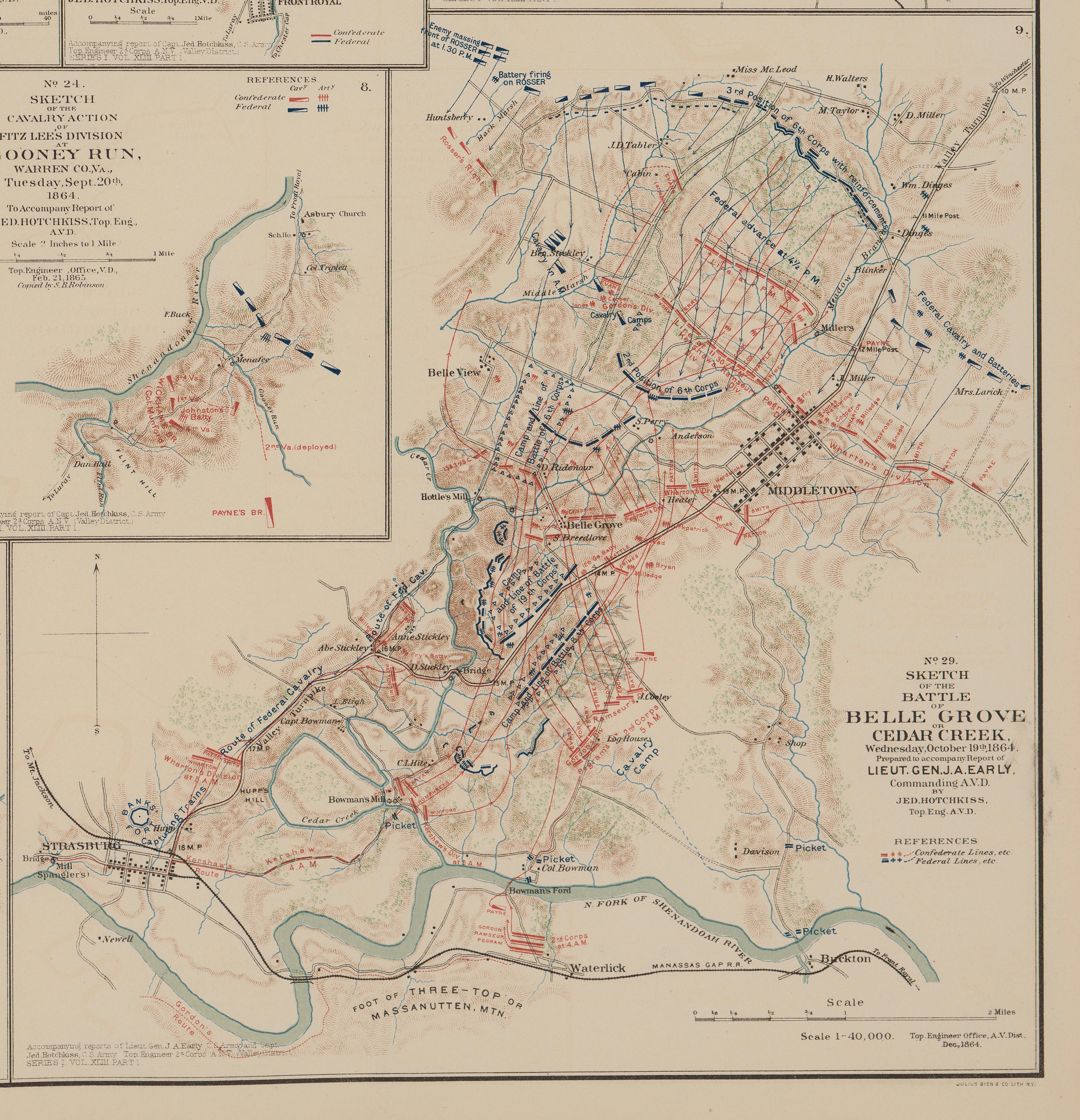 BATTLE OF CEDAR CREEK.